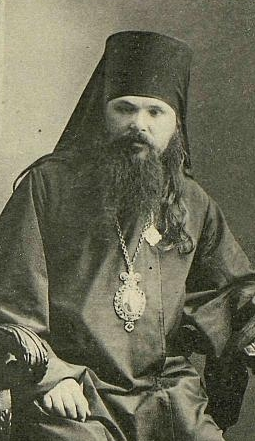 Mitrofan_Krasnopolskiy